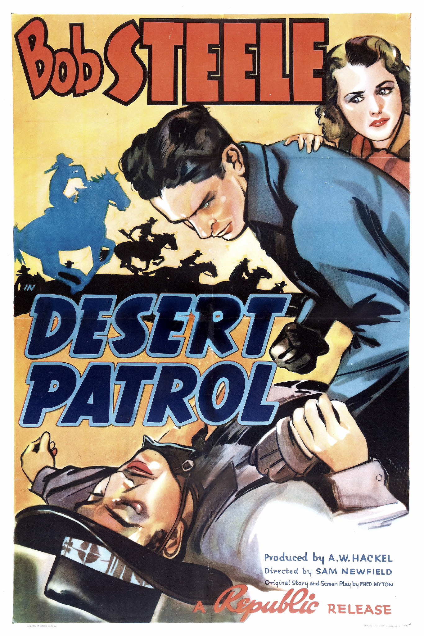 Poster for the 1938 film Desert Patrol. There are no copyright marks. At bottom left is County of origin USA. At bottom right is Morgan Litho Corp. Cleveland O. 18930.